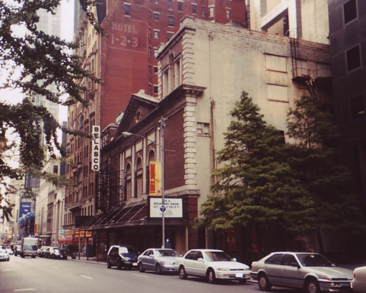 Photo of Belasco Theatre, New York City, by Mademoiselle Sabina, c. 2002.